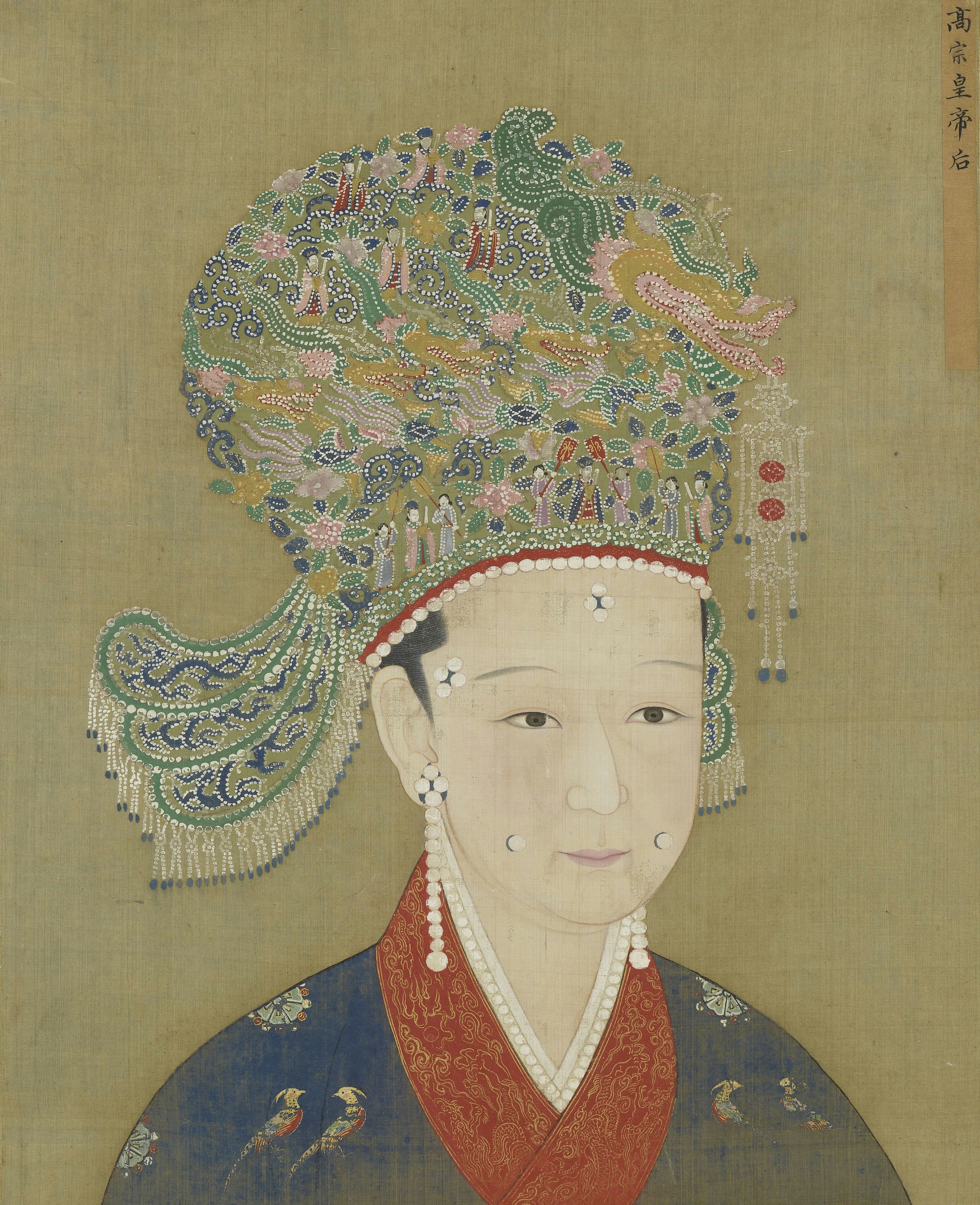 This painting depicts Empress Wu, an empress of Emperor Gaozong (r. 1127–1162) of the Song dynasty. She is seen here wearing a ceremonial robe of a dark blue color, decorated with depictions of paired pheasants and bordered with red gauze featuring dragon patterns. She is also seen here wearing a nine-dragon hairpin crown, pendants, and pearls that are on her face.